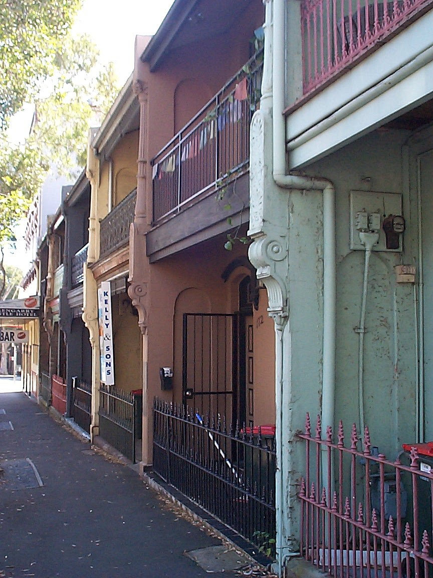 Photo taken by Michael Gardner, March 2007